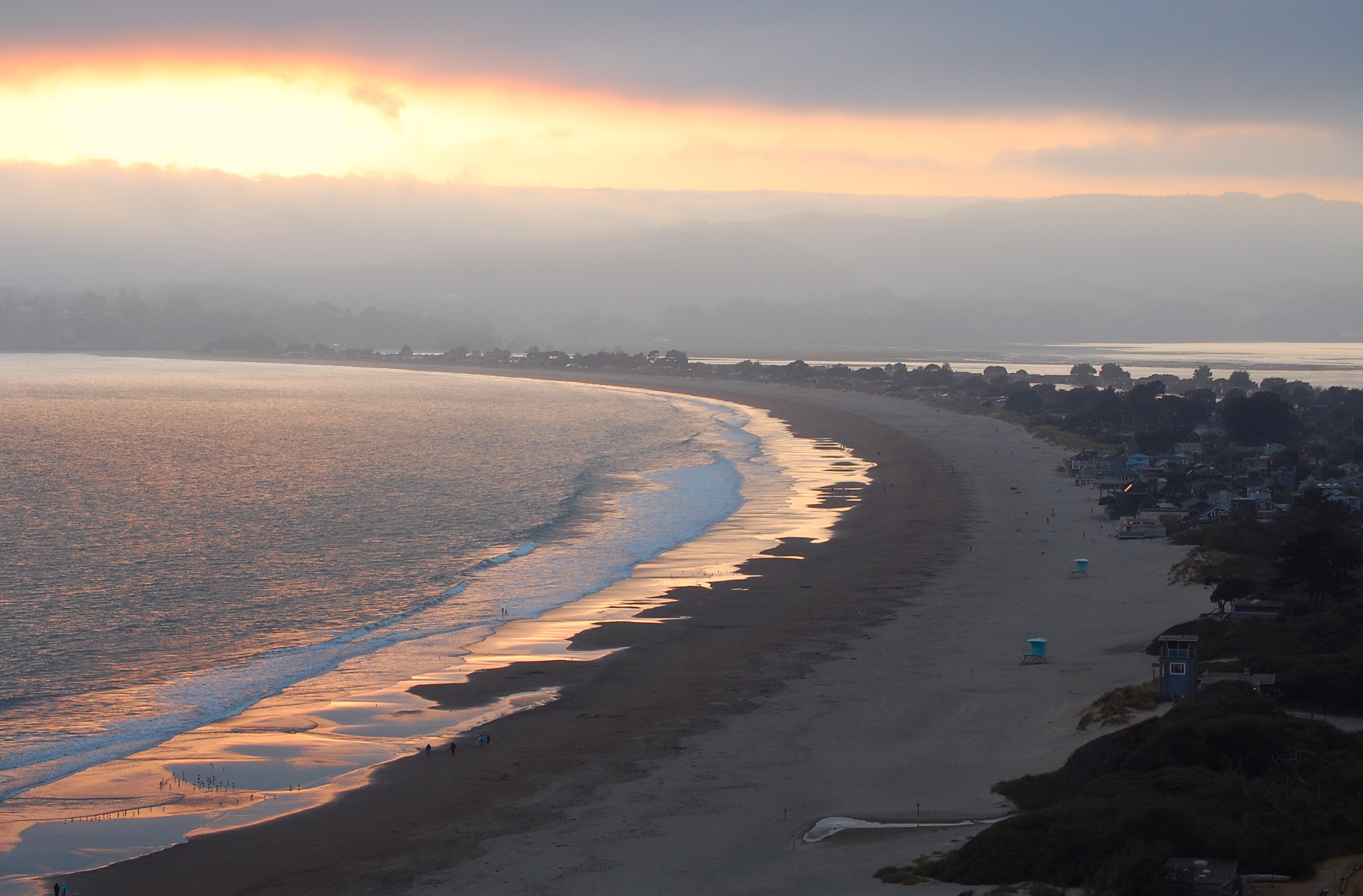 A foggy sunset over Stinson Beach, California.